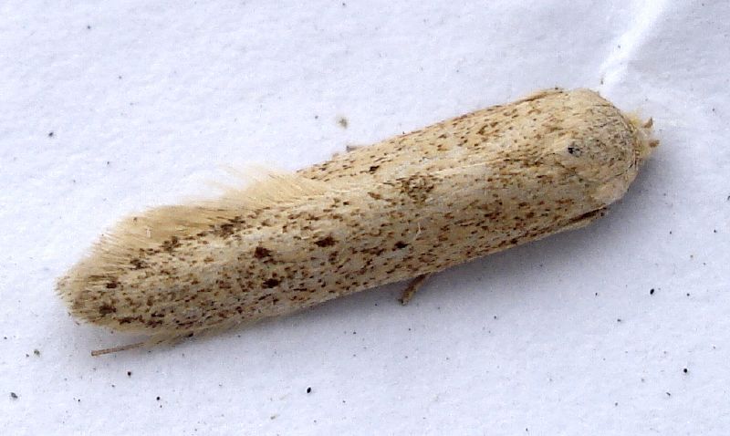 Blastobasis lacticolella from Lincolnshire (UK)